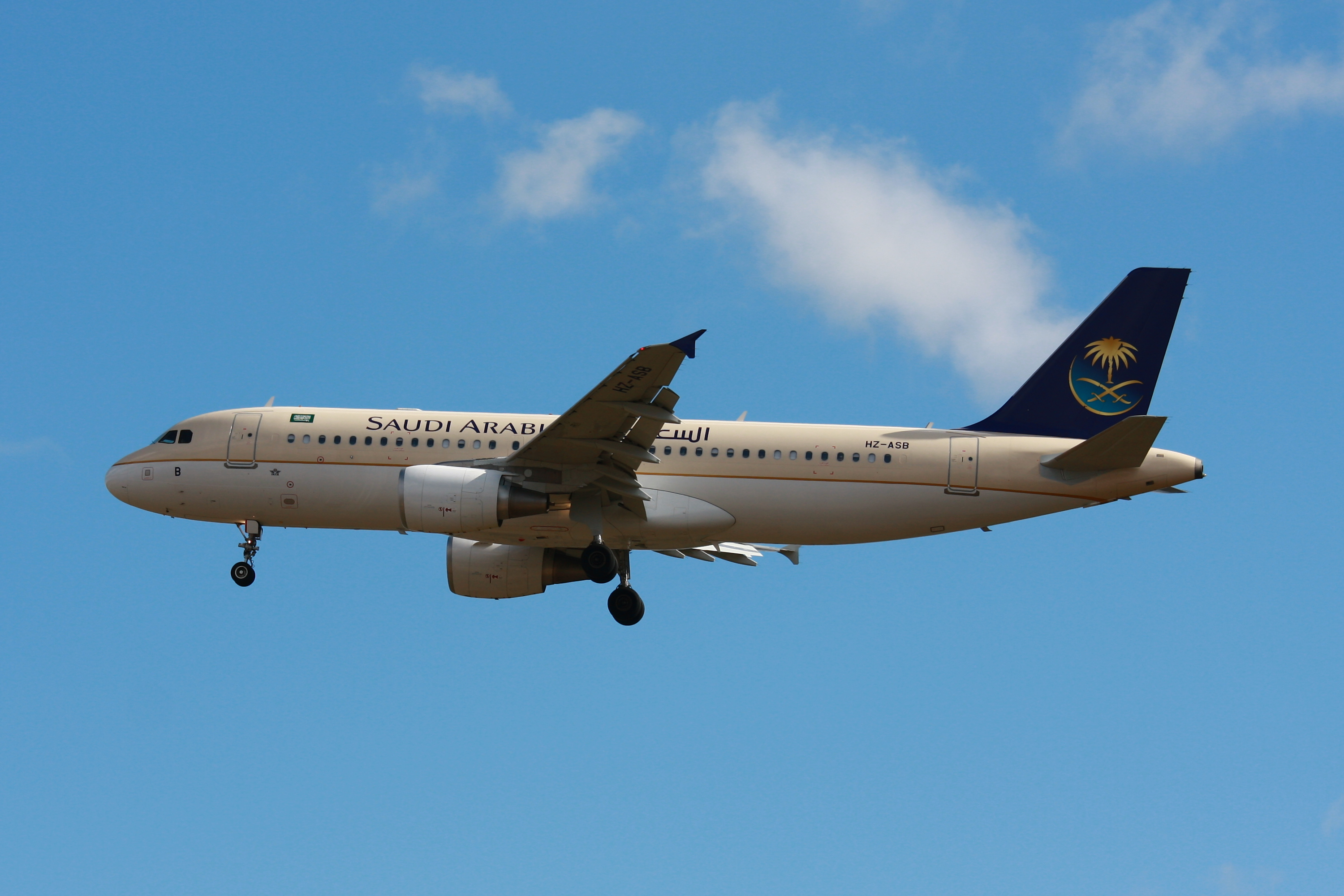 An Airbus A320 of Saudi Arabian Airlines landing at Frankfurt Airport